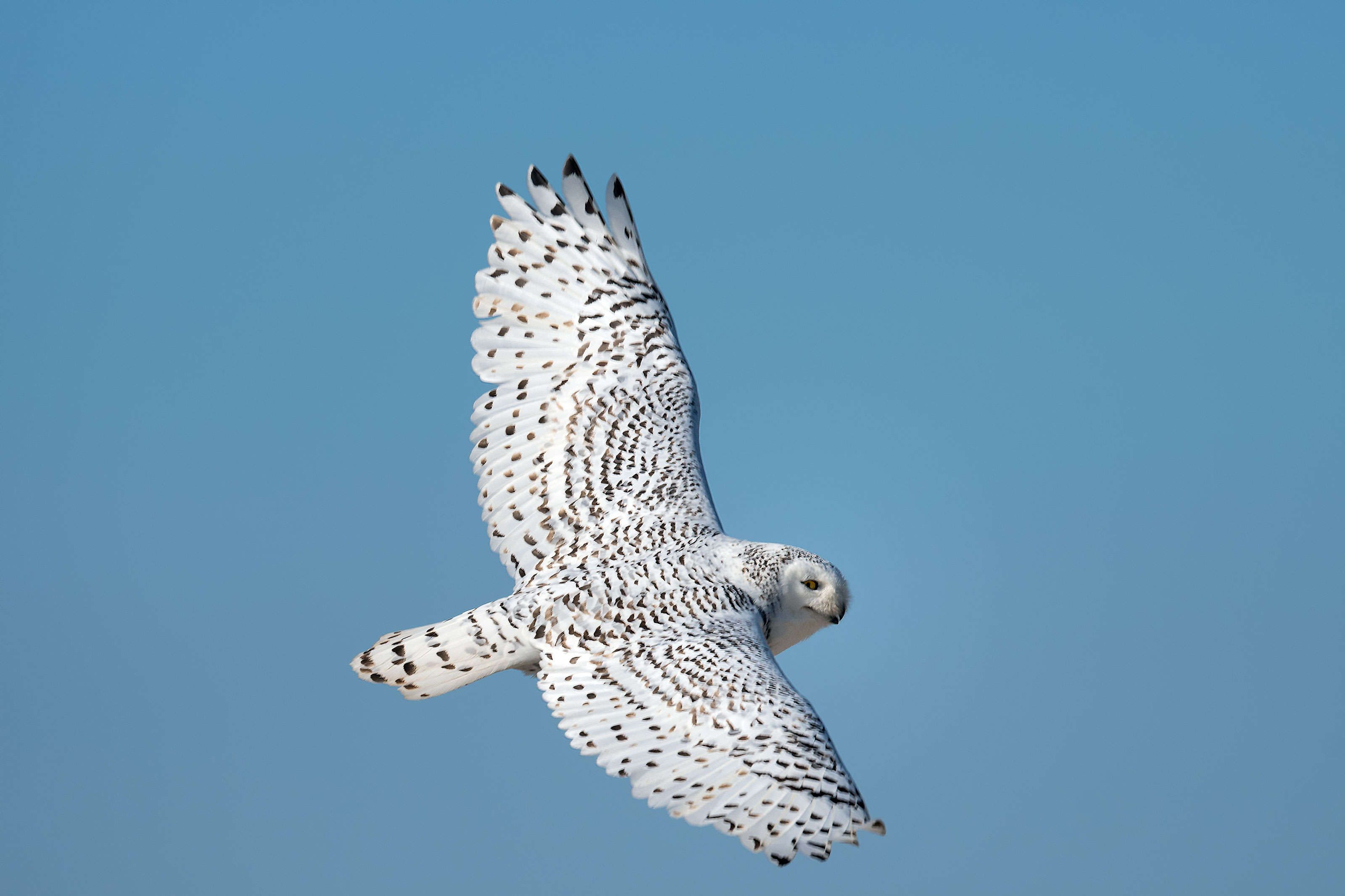 snowy owl on wing, cupsogue beach